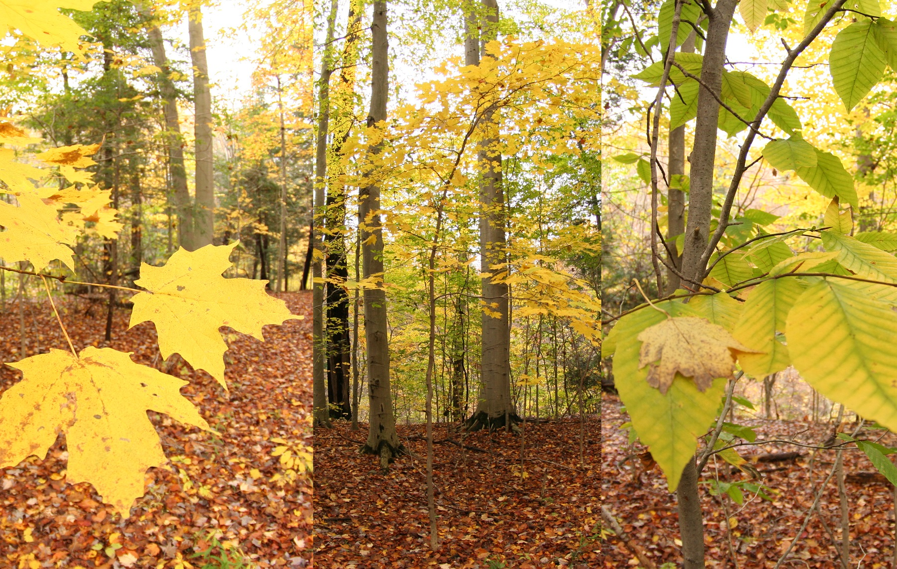 A beech-maple forest with a small sugar maple tree in the foreground (center), and two larger American beech trees in the background. Left detail shows sugar maple leaves, and the right detail shows American beech leaves (with one maple leaf resting on the beech leaf). Photos taken during fall in an Ohio forest.